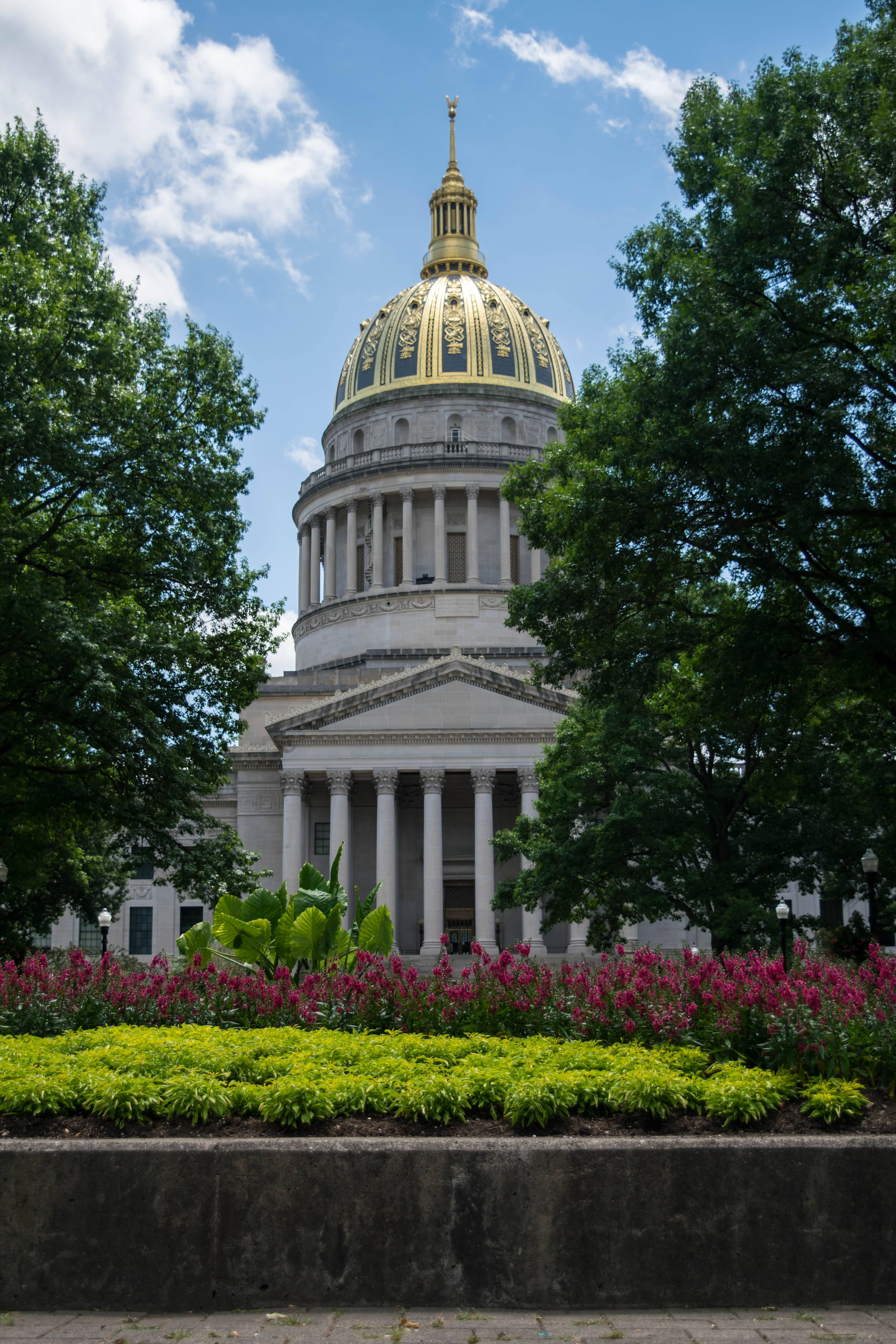 This is behind the capitol building where they have many flowers planted.